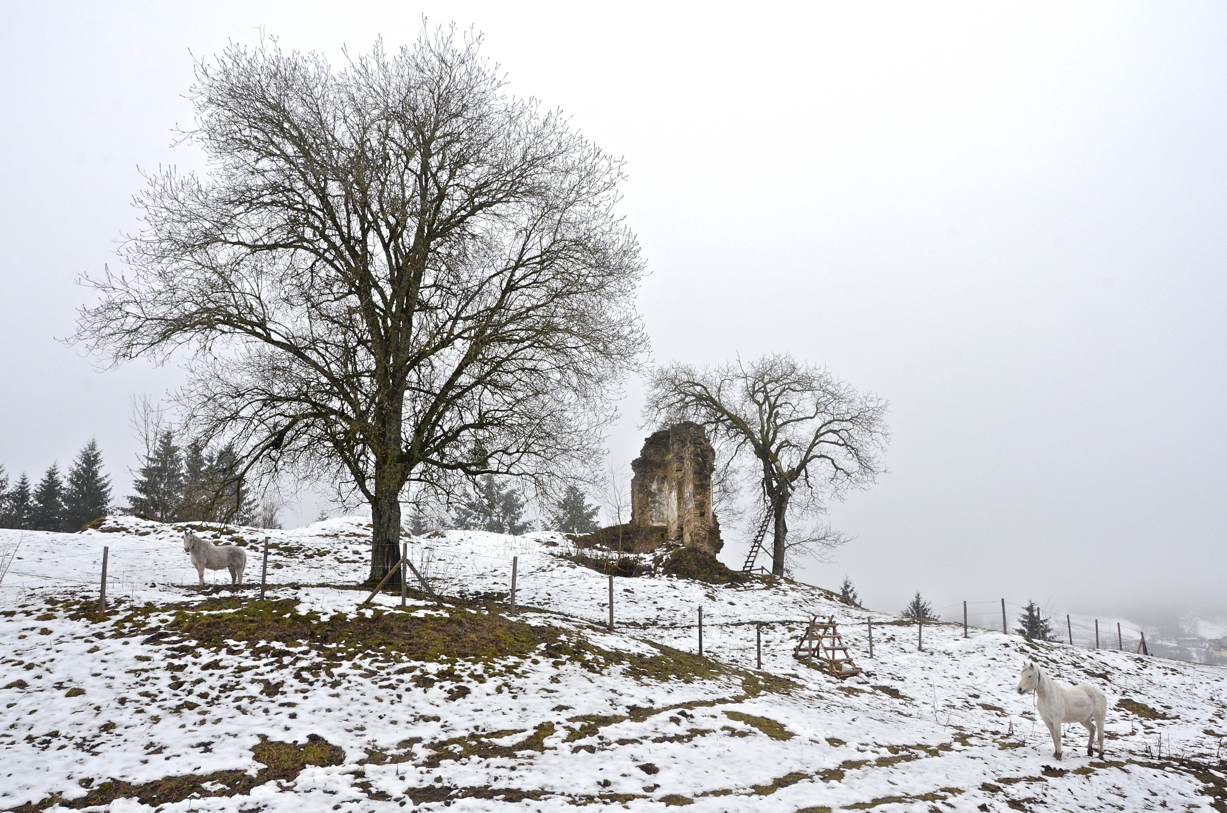 Ruins of the medieval castle Gillitzstein on the Saualpe road at Saint Oswald, market town Eberstein, district Sankt Veit an der Glan, Carinthia / Austria / EU